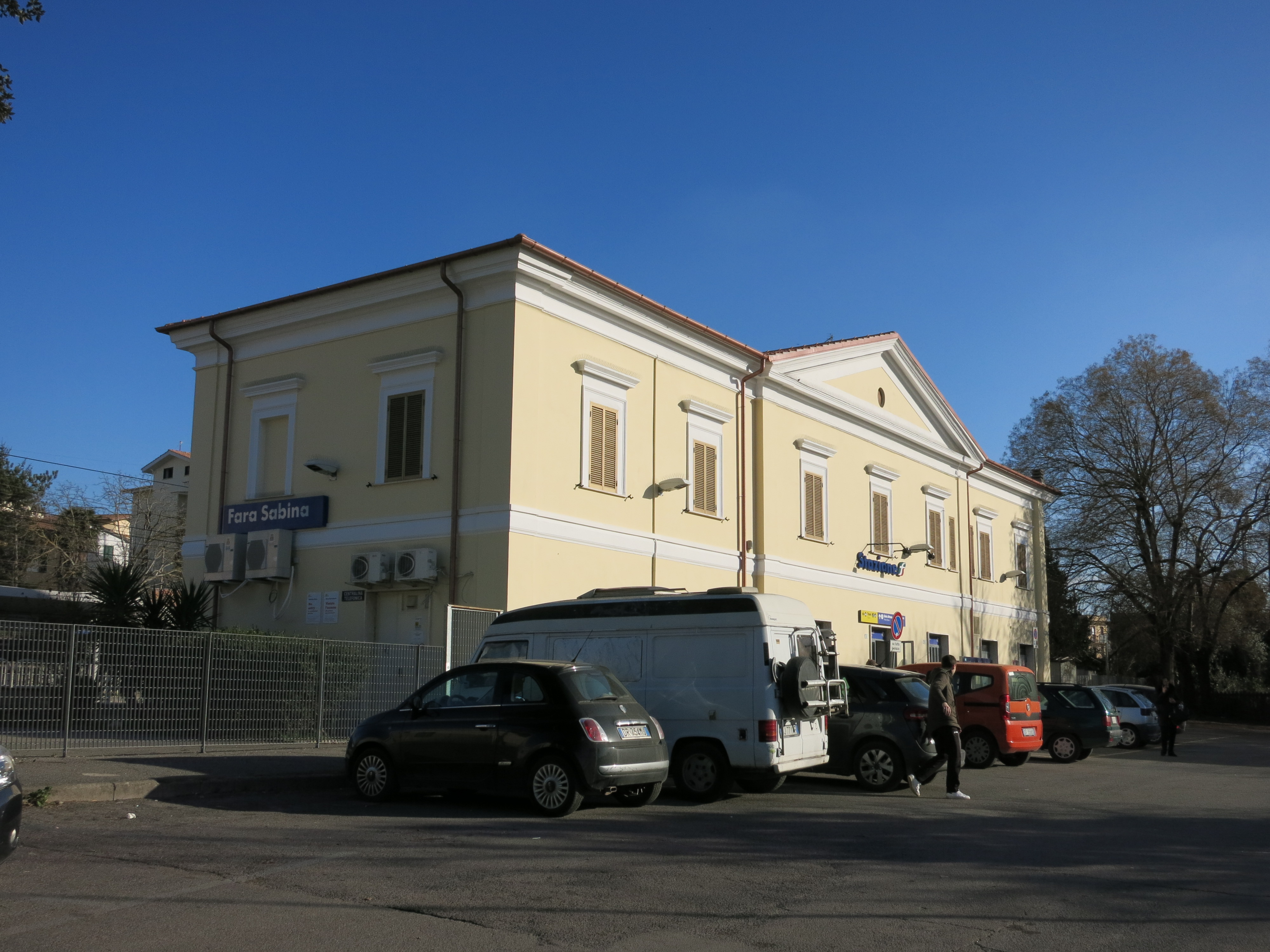 Exterior - Train station of Fara Sabina-Montelibretti (village of Passo Corese in the municipality of Fara in Sabina - Province of Rieti, Lazio, Italy)